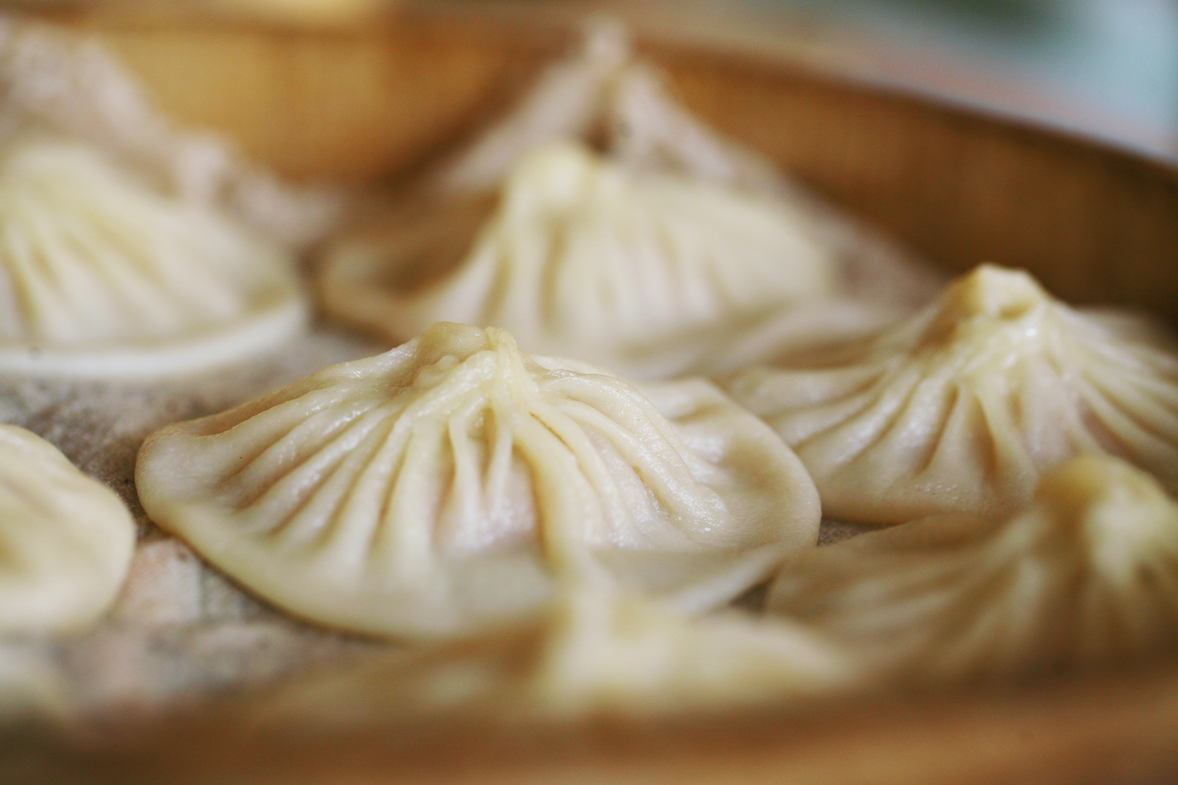 Steamed soup buns in Kaifeng